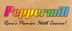 Old Peppermill Reno logo (2)